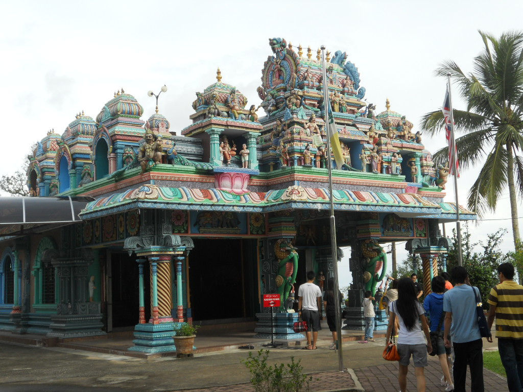 Hinduism in Malaysia